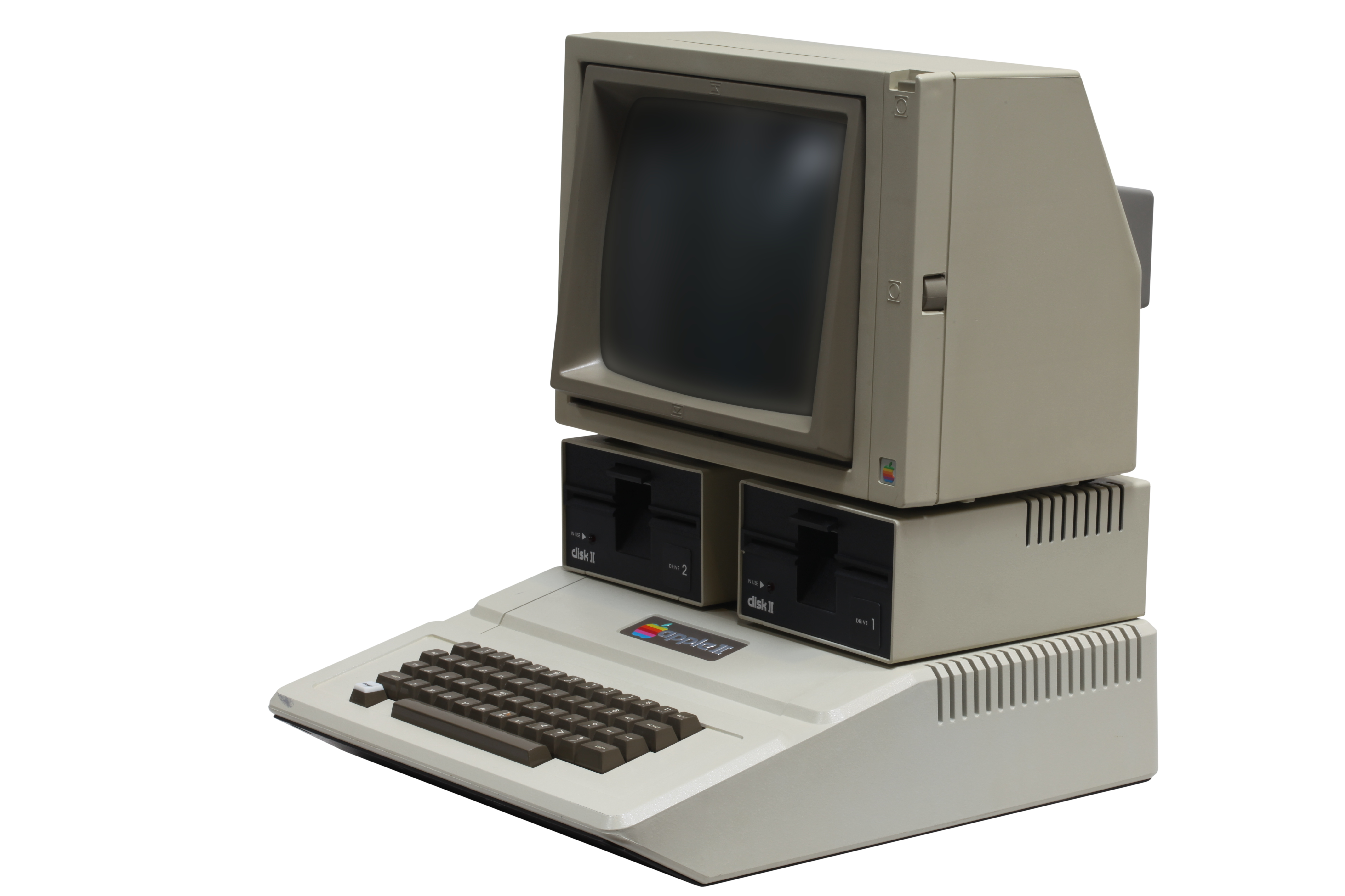 Apple II computer. On display at the Musée Bolo, EPFL, Lausanne.